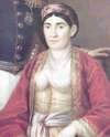 Portriat of Ljubica Vukomanovic, Princess consort of Serbia